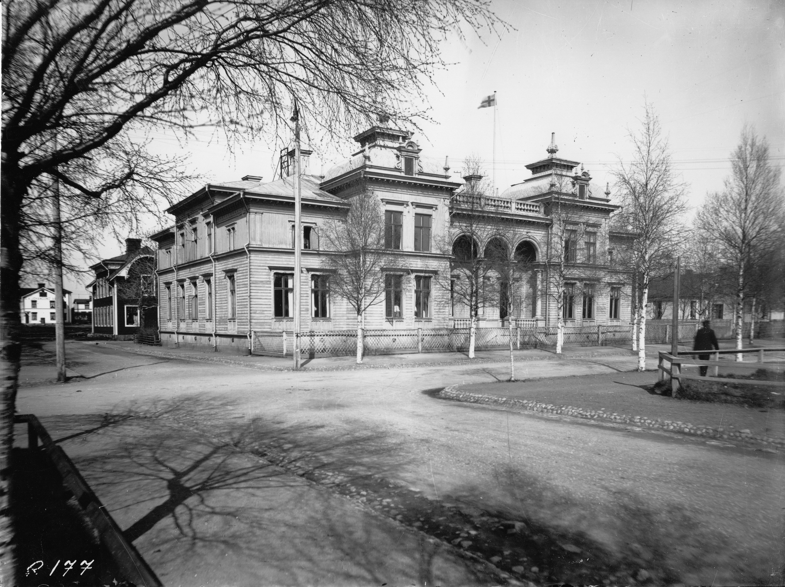 The Moritz house